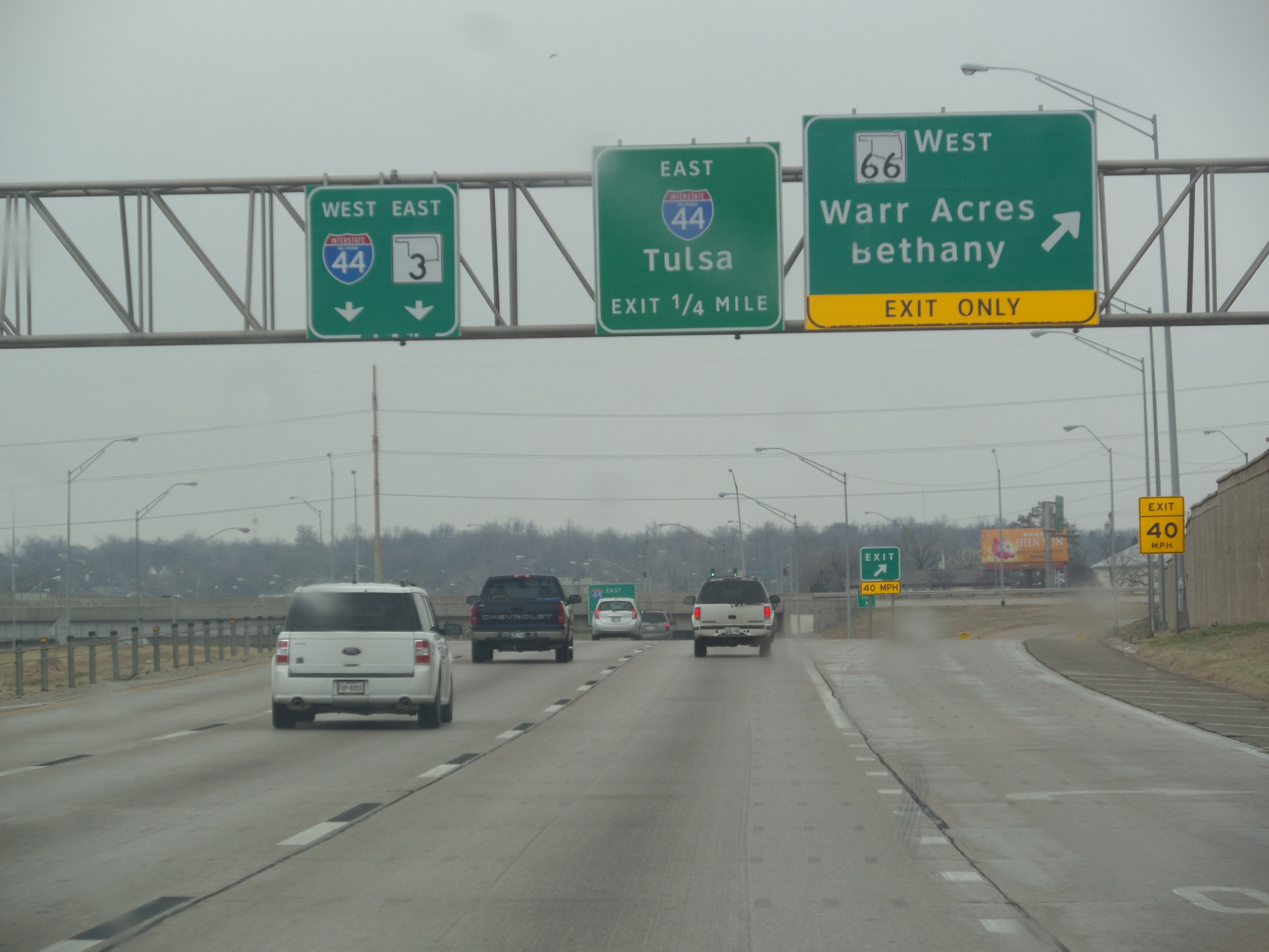 Approaching the end of the Lake Hefner Parkway before the freeway becomes Interstate 44